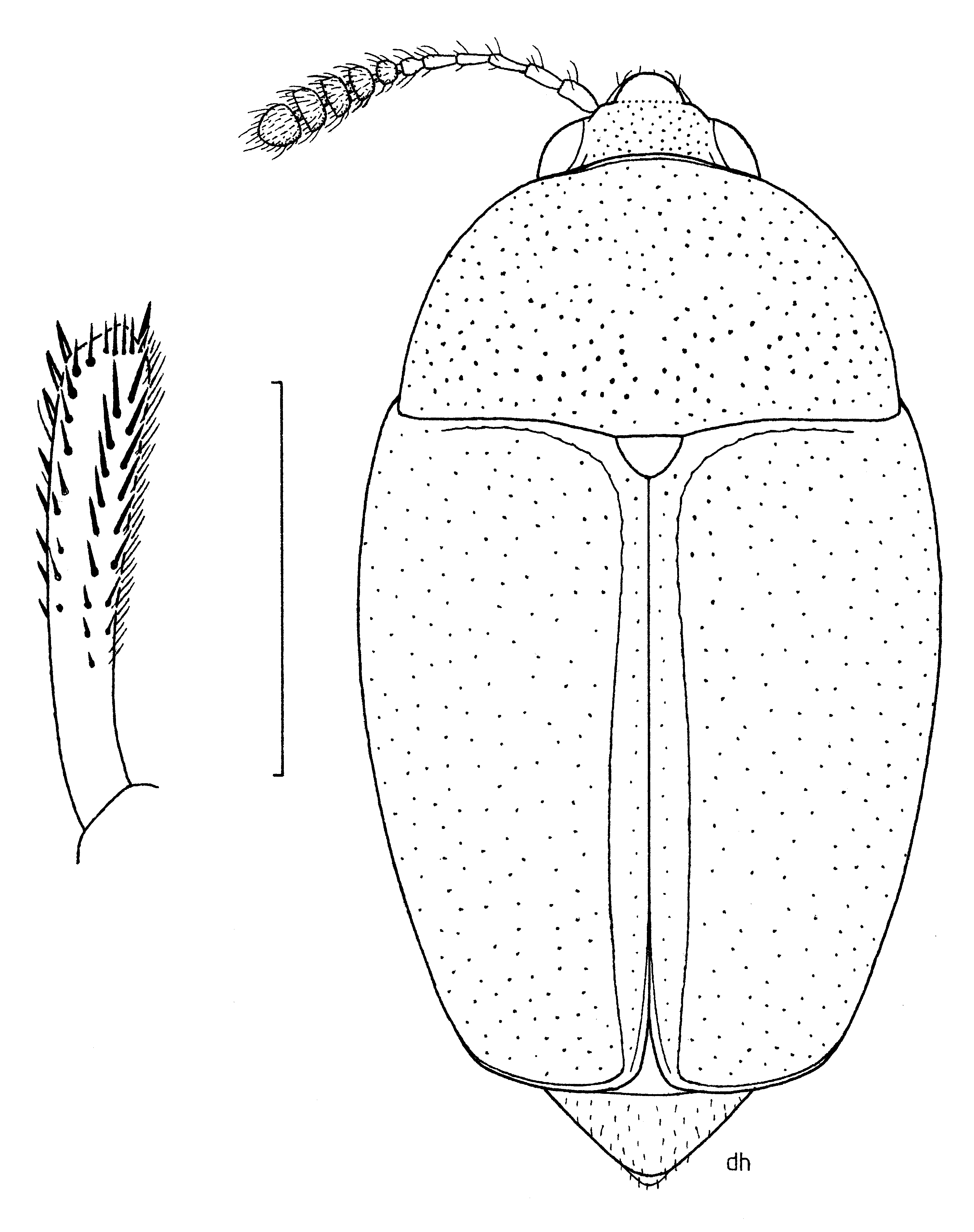 (Coleoptera: Staphylinidae) Cyparium earlyi illustrated by Des Helmore.